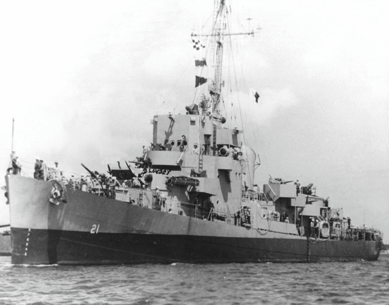 The U.S. Navy destroyer escort USS Harold C. Thomas (DE-21) underway, circa in 1945. She is painted Camouflage Measure 22.